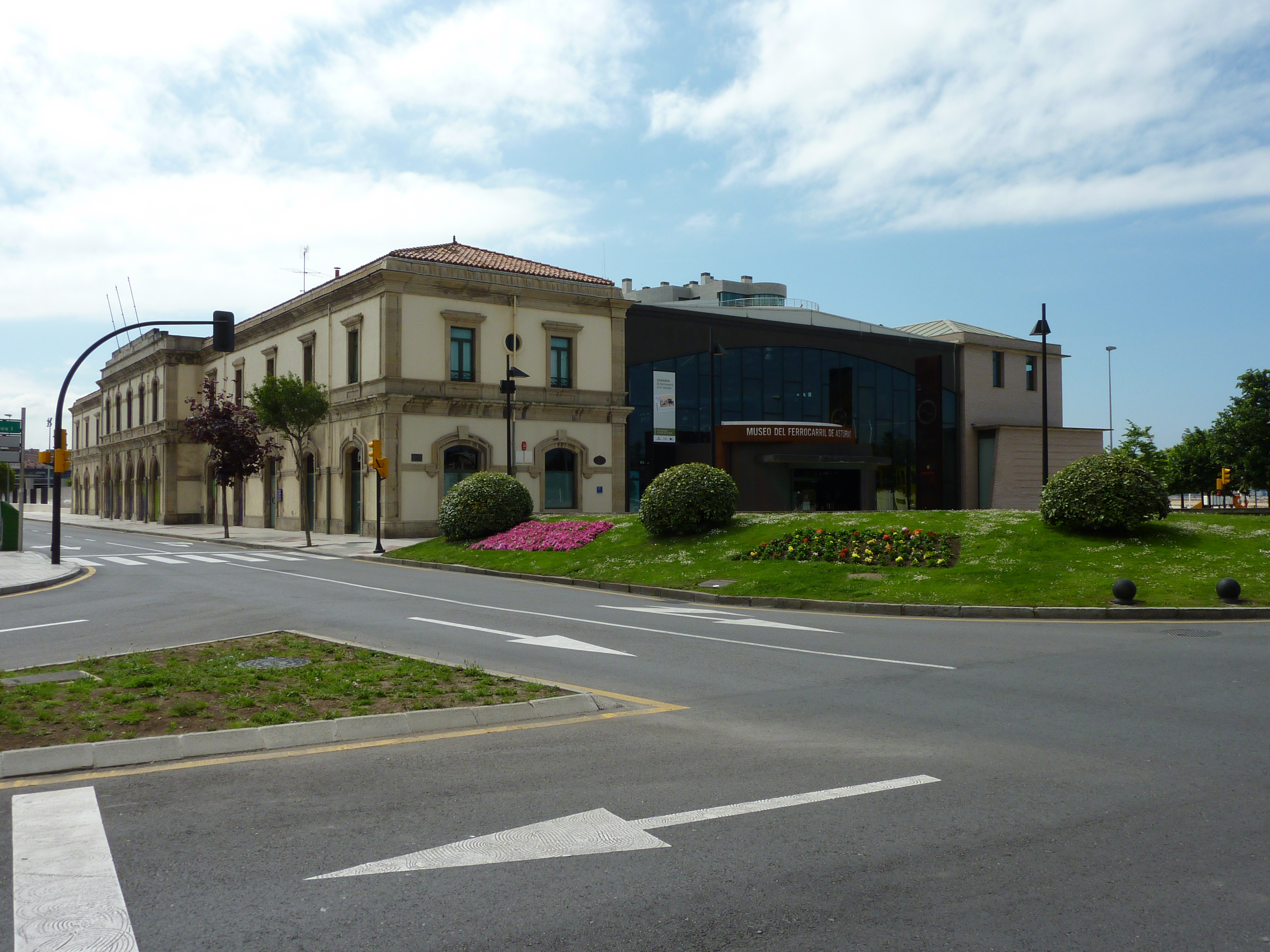 Old Railway station Gijón in Asturias, Spain